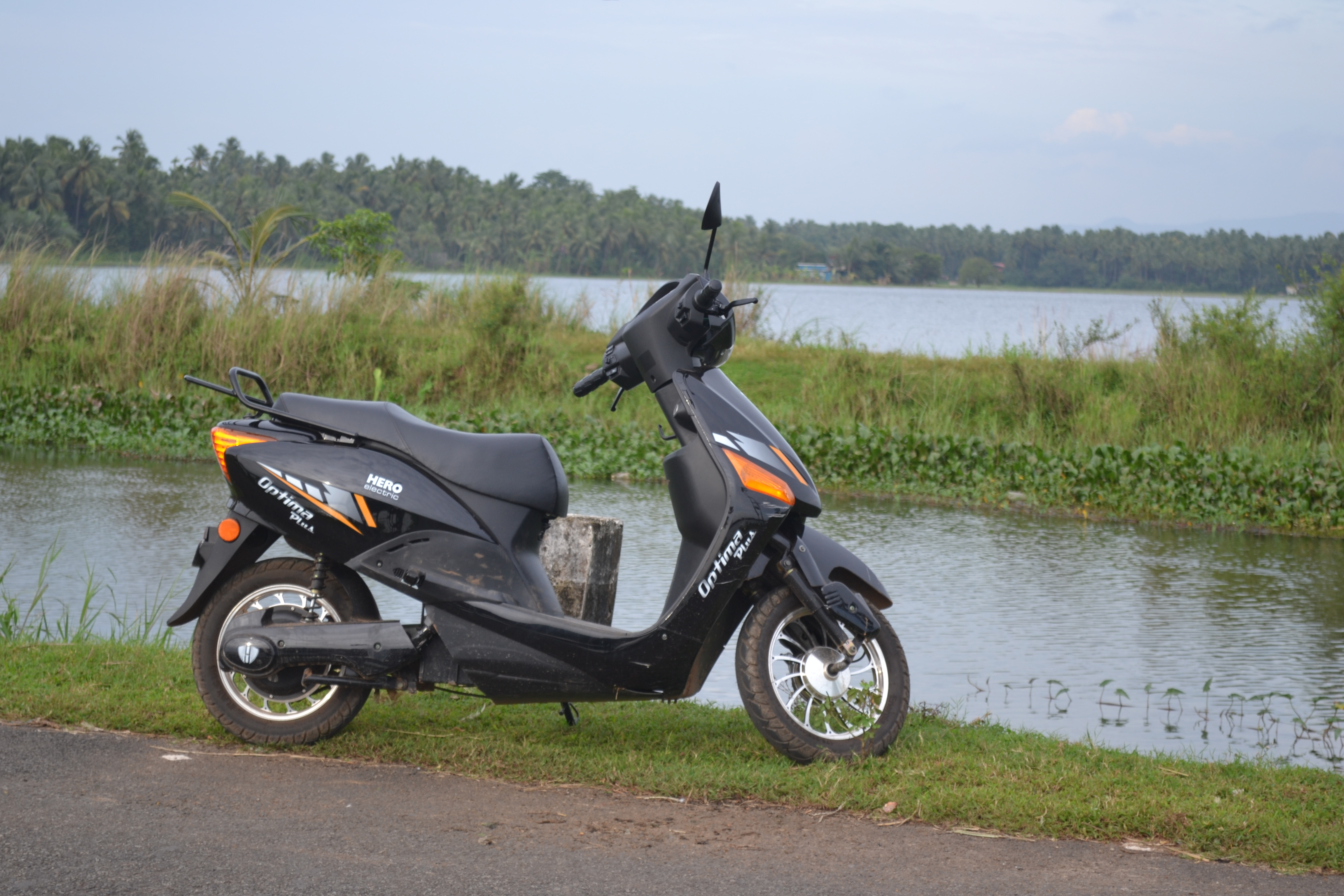 Hero Electric's Optima Plus is an e-bike available in the Indian market. With a maximum of 25 kmph and driven by a 250 W BLDC motor and 20 Ah battery, the vehicle typically consumes approximately 1 KWh from a normal home power supply. The manufacturers promise a maximum range of 70 Km per one full charge cycle. This two-wheeler does not require a driving licence, registration or a number plate.